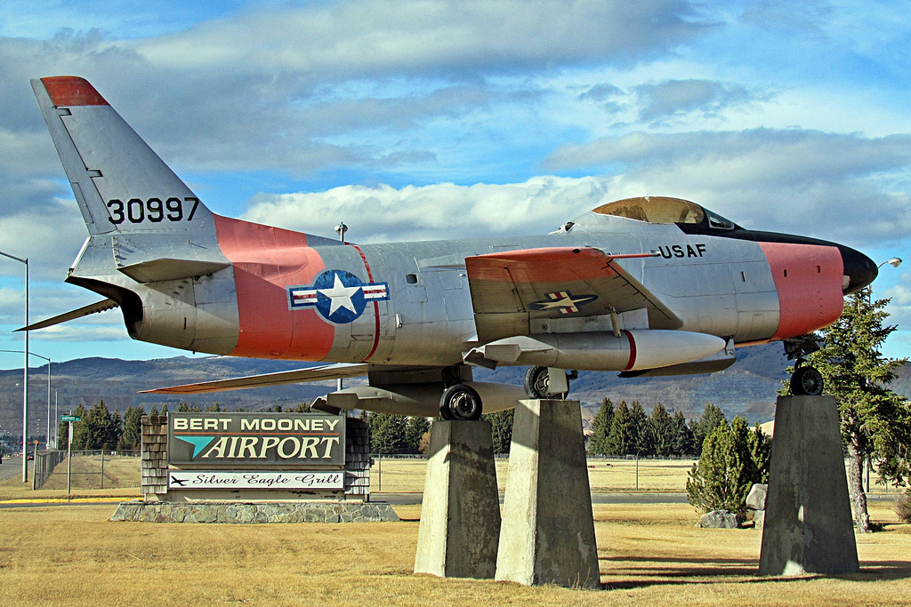 The North American F-86 Sabre was a transonic jet fighter aircraft. Produced by North American Aviation, the Sabre is best known as America's first swept wing fighter which could counter the similarly-winged Soviet MiG-15 in high speed dogfights over the skies of the Korean War. Considered one of the best and most important fighter aircraft in the Korean War, the F-86 is also rated highly in comparison with fighters of other eras. Although it was developed in the late 1940s and was outdated by the end of the 1950s, the Sabre proved versatile and adaptable, and continued as a front-line fighter in numerous air forces until the last active operational examples were retired by the Bolivian Air Force in 1994. The F-86L was an upgrade conversion of the F-86D with new electronics, extended wingtips and wing leading edges, revised cockpit layout, and uprated engine; 981 were converted. Source: Wikipedia This plane is located at the entrance to the Bert Mooney Airport in Butte, Montana (corner of Harrison Avenue and Airport Road).